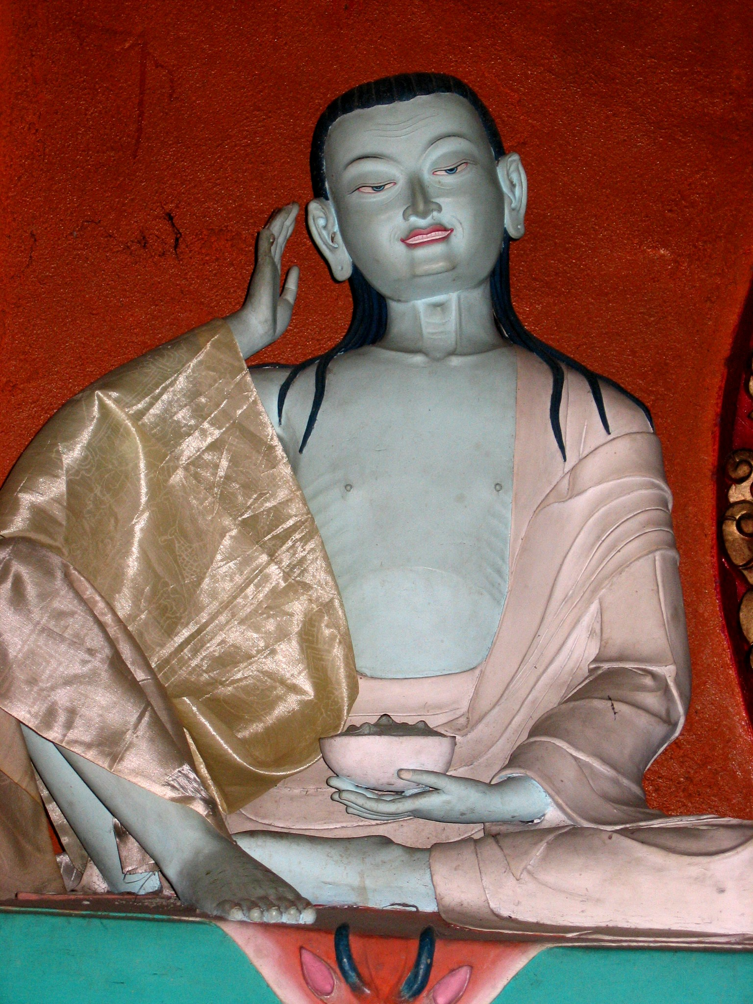 Statue of Milarepa (Buddhist art) — at Milarepa's Gompa in the Helambu valley, Bagmati Zone, central Nepal.